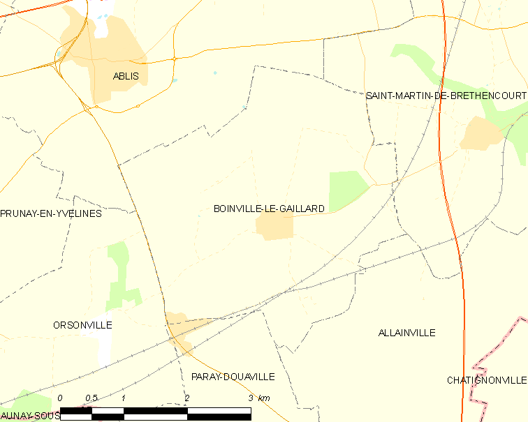 Map of French municipality Boinville-le-Gaillard